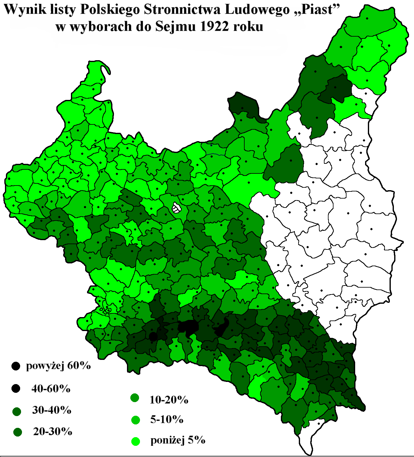 Polish People's Party "Piast" results in the Polish legislative election, 1922